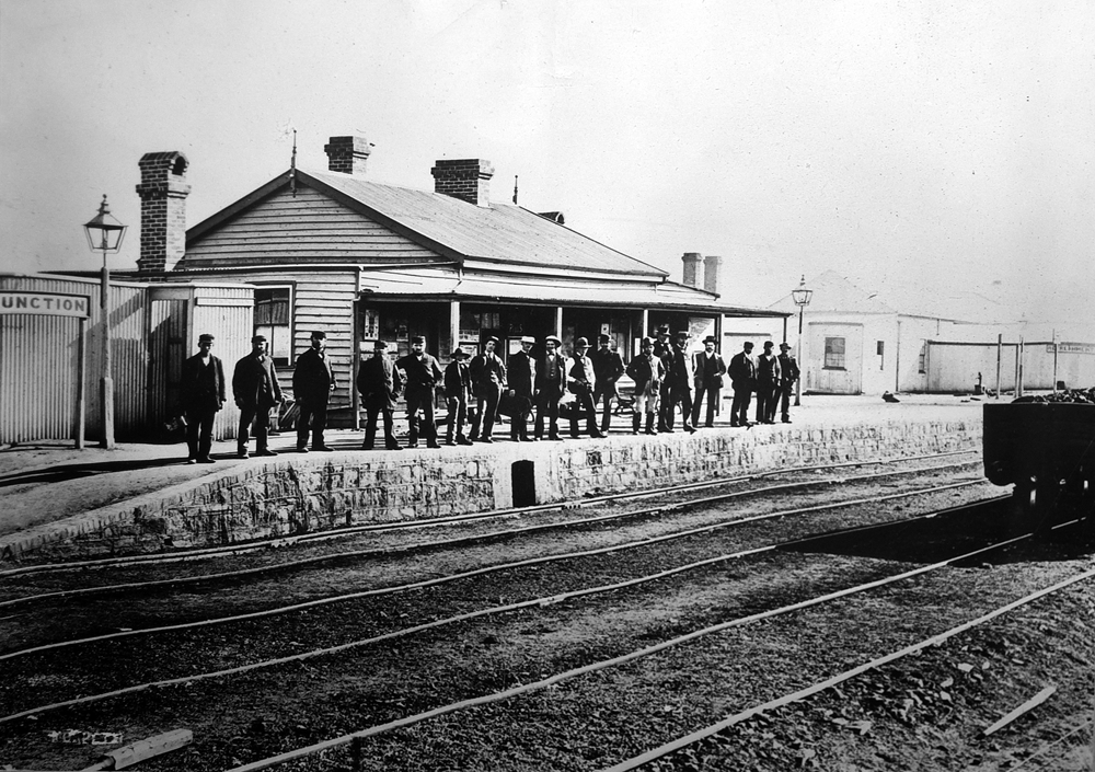 The original Junee Junction Railway Station in the early 1880s.